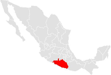 A map of the Mexican state of guerrero made by me